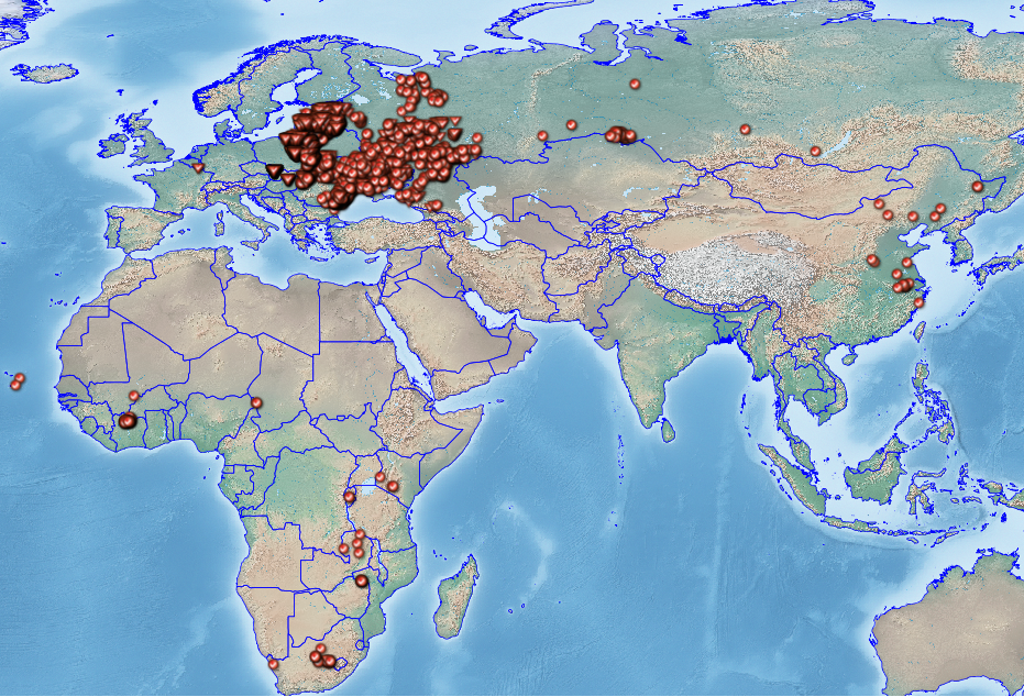 African Swine Fever from 1.01.2018 to 22.09.2018